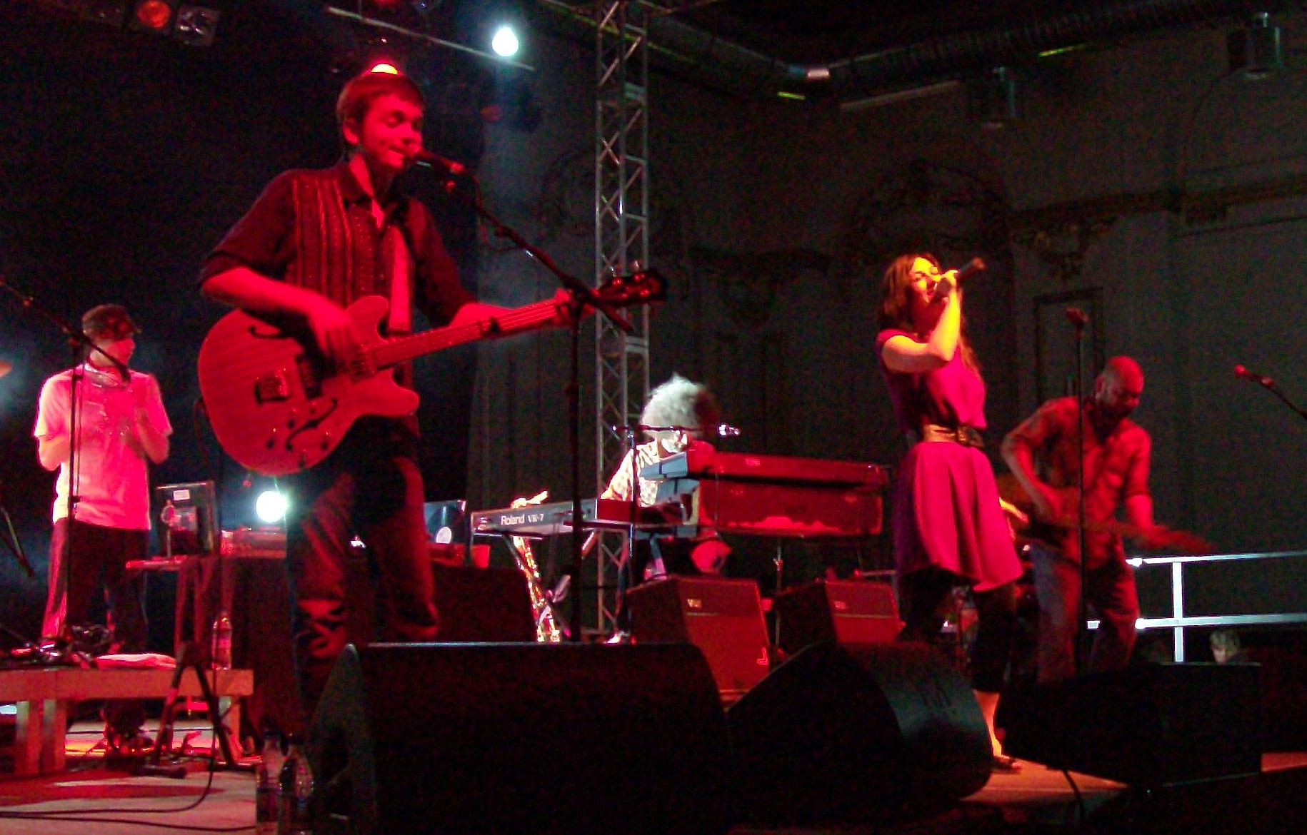 Morcheeba in concert